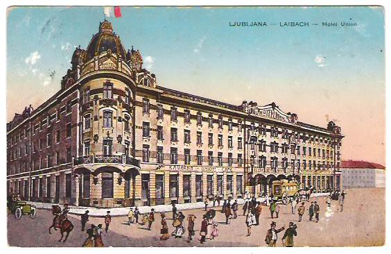 Postcard of Grand Hotel Union Ljubljana